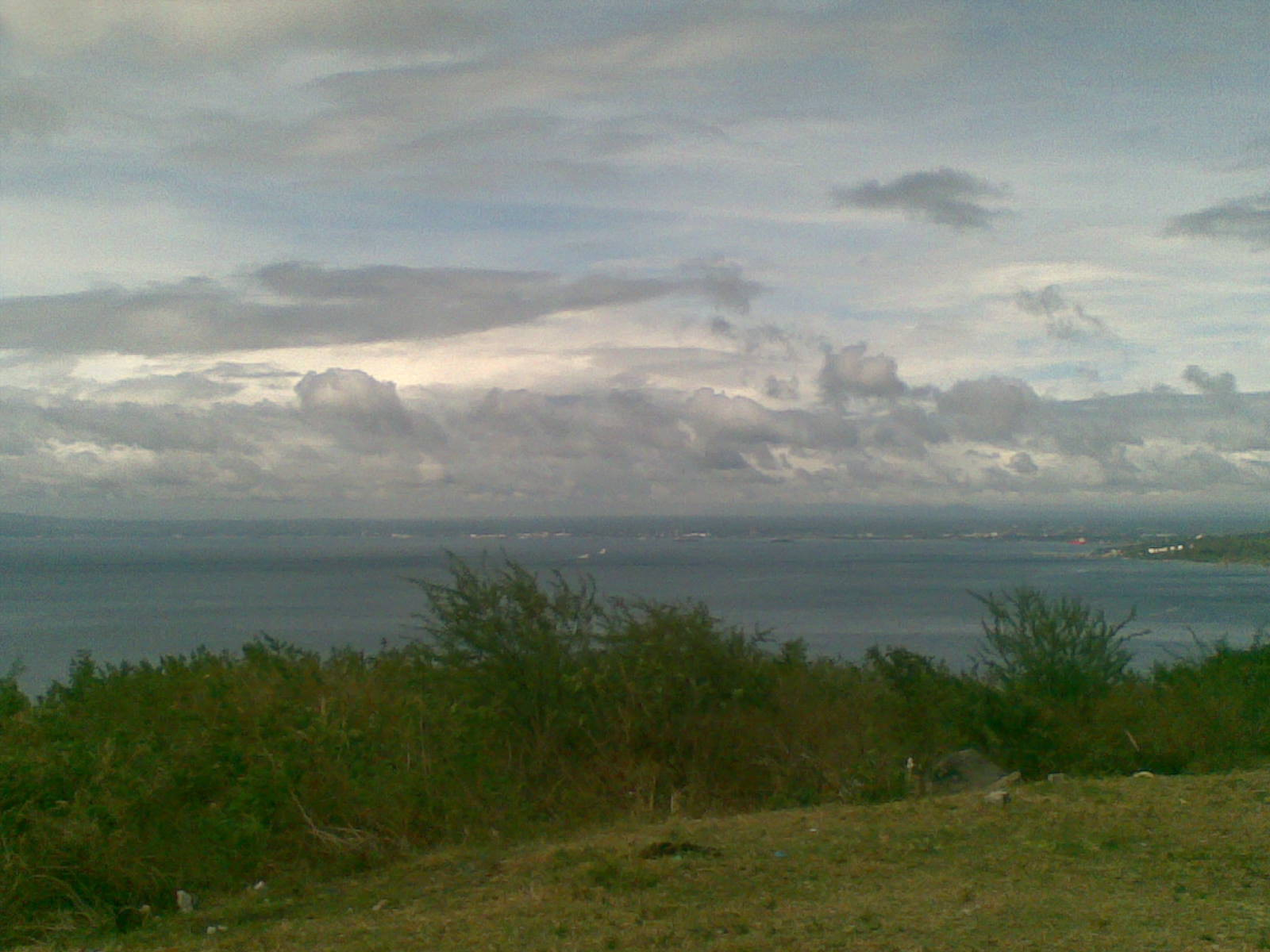 This image depicts the Batangas Bay from Monte Maria, Brgy. Pagkilatan, Batangas City, Philippines. Tagalog: Ipinapakita ng larawang ito ang Look ng Batangas mula sa Monte Maria, Brgy. Pagkilatan, Lungsod ng Batangas, Pilipinas.